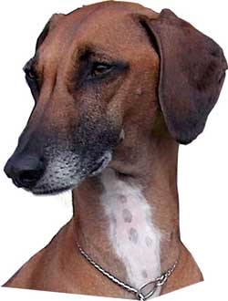 Azawakh, portrettbilde. Photo: User:ToB 9. feb 2005 kl.16:36 (UTC) Azawakh